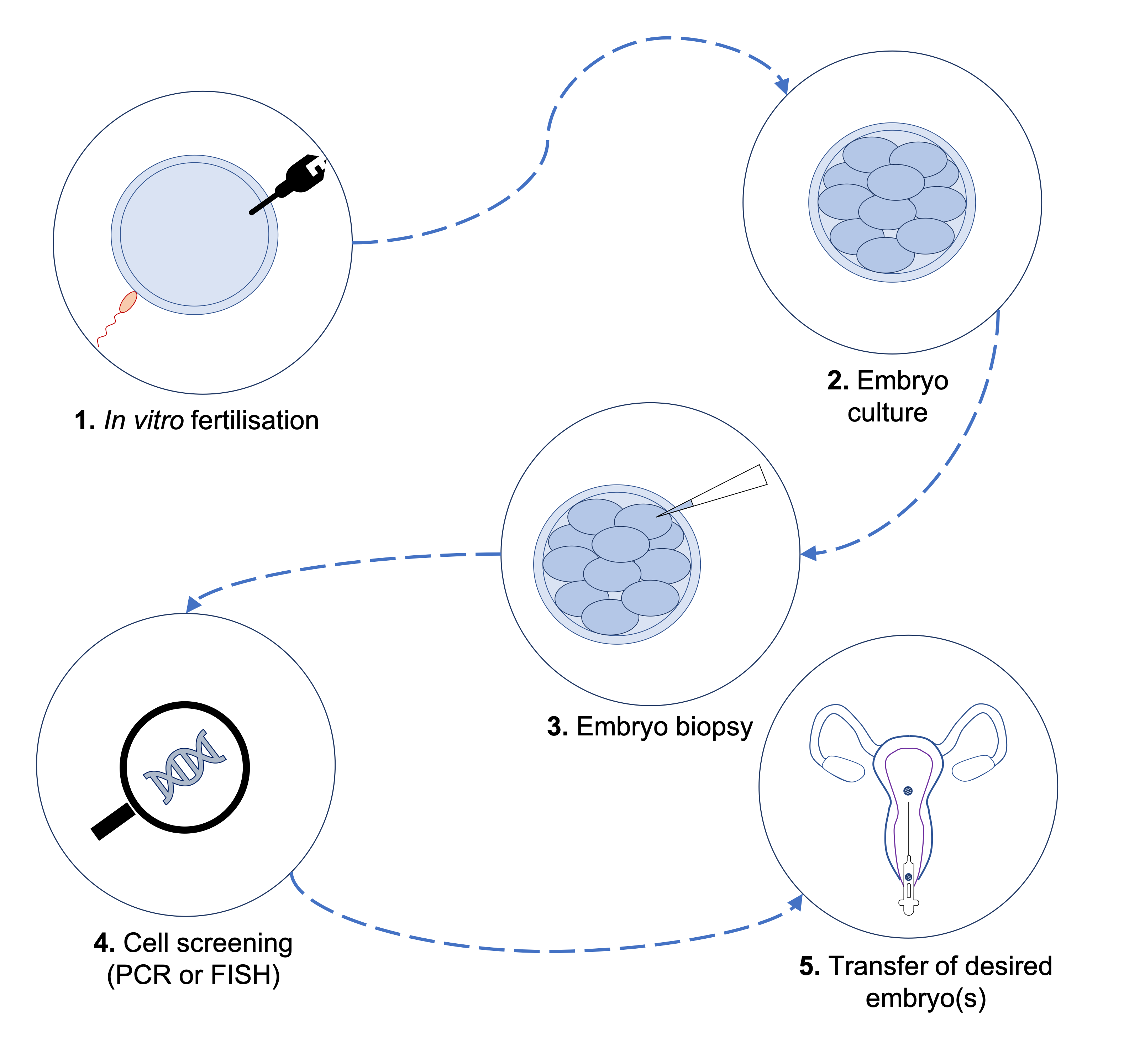 Process of pre-implantation genetic diagnosis. Produced by Bananapancake212 for the Designer baby article page.